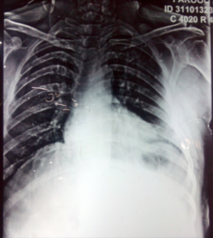 X - ray of a patient suffering from lung cavity caused by N. lactamica